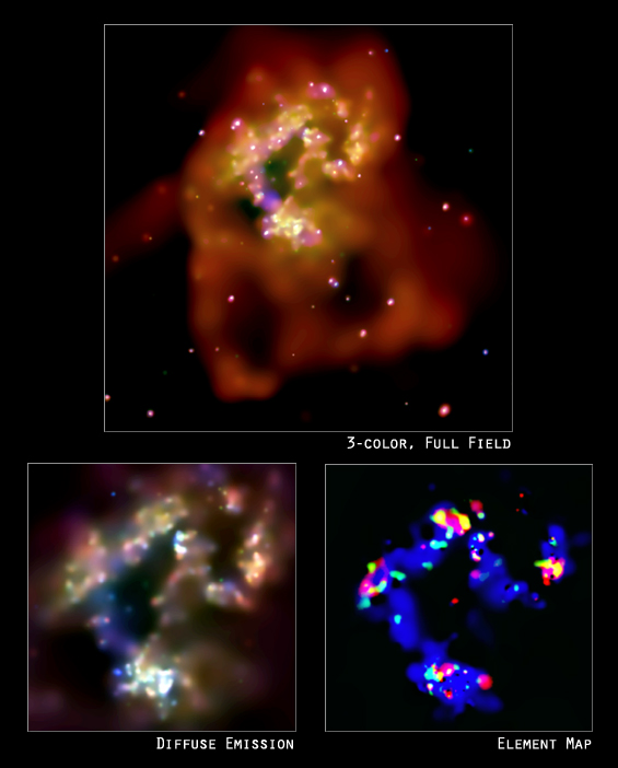 This montage of Chandra images shows a pair of interacting galaxies known as The Antennae. Rich deposits of neon, magnesium, and silicon were discovered in the interstellar gas of this system.